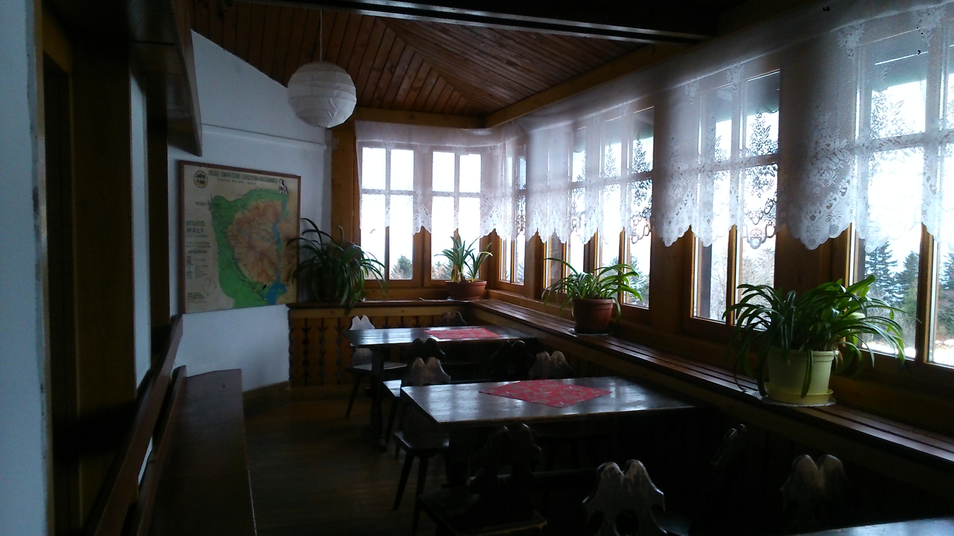 Mountain hostel on Magurka Wilkowicka, Poland. Day room.